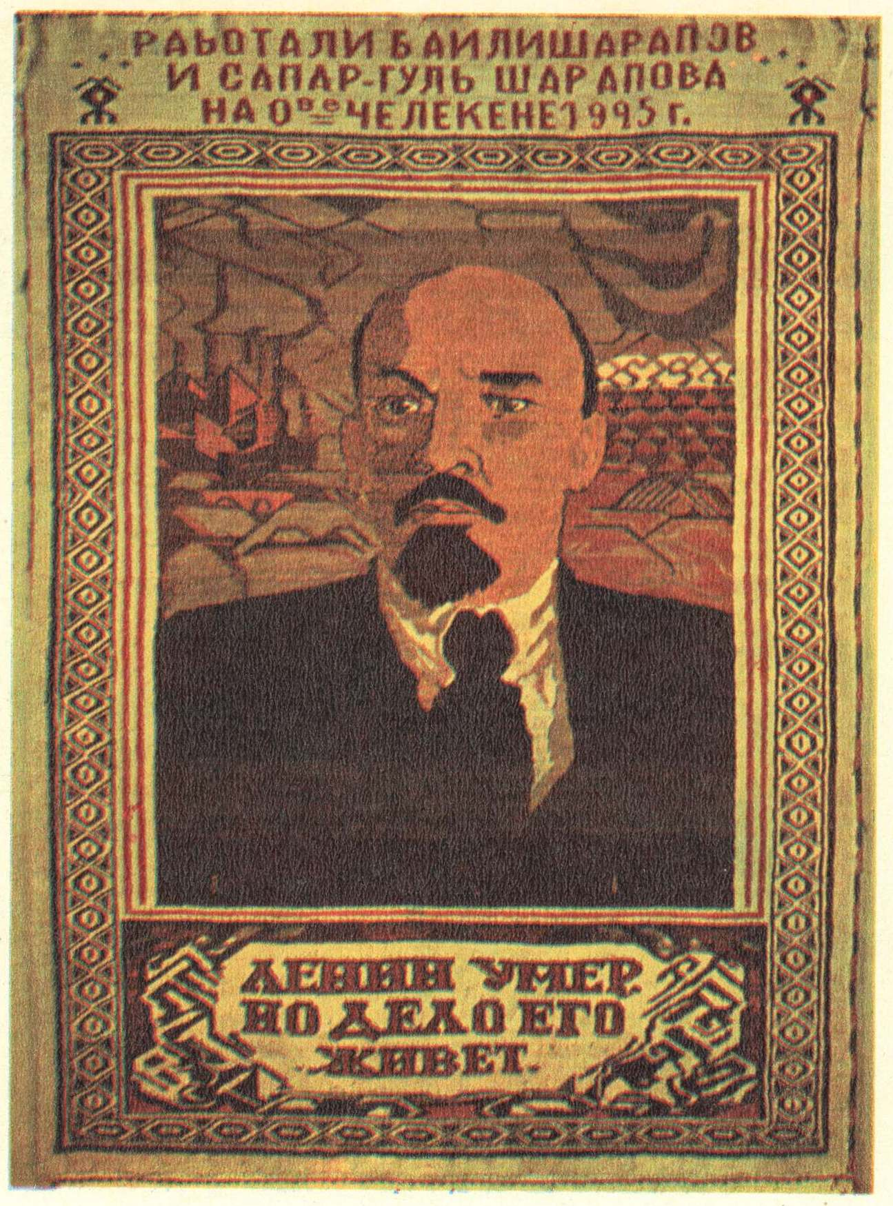 V.I. Lenin. Turkmen carpet.